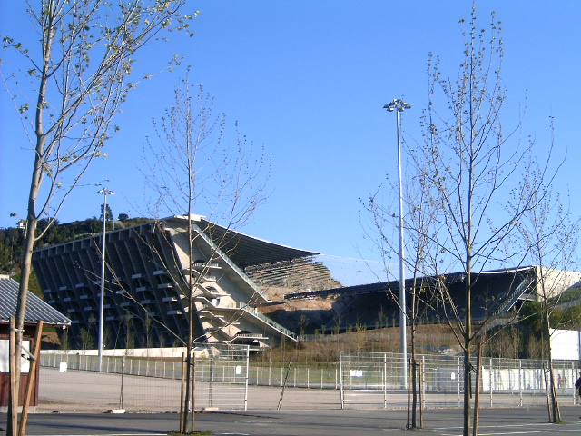 Stadium in Braga, Portugal